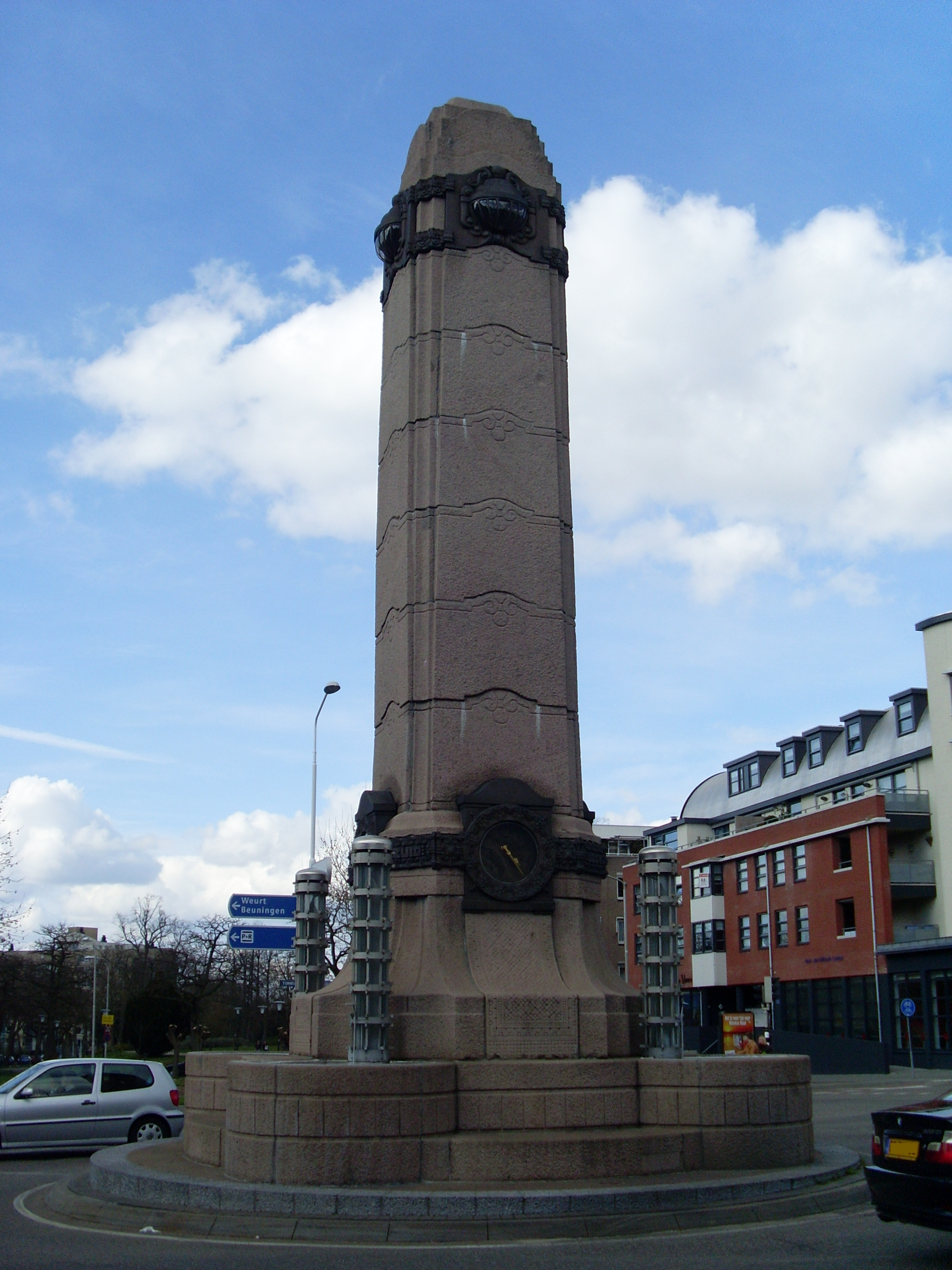 Quack Monument (Marie Adolf fountain) Nijmegen